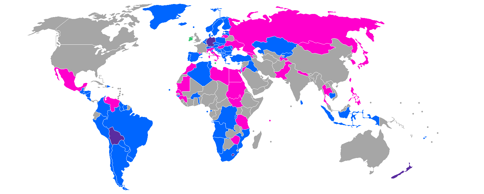 A geographic representation of the types of proportional voting systems used around the world at national level. Party list Mixed member majoritarian Mixed member proportional Single transferable vote